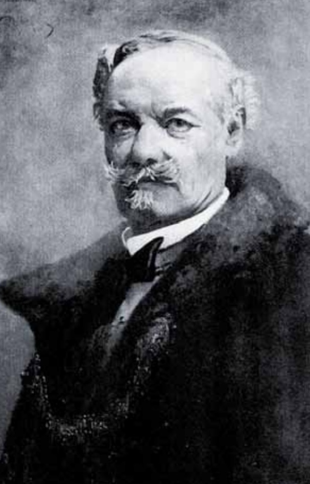 Leveldi Kozma Ferenc Albert (Sőrnye puszta, Somogy vármegye, 1826. szeptember 19. – Mezőhegyes, Békés vármegye, 1892. július 6.) földművelésügyi miniszteri titkár, majd tanácsos